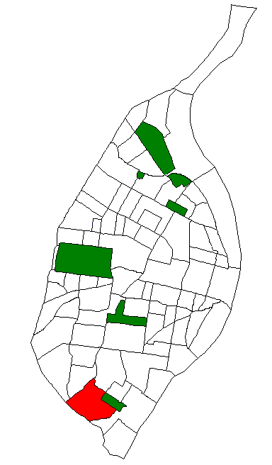 Map of St. Louis Neighborhood #04